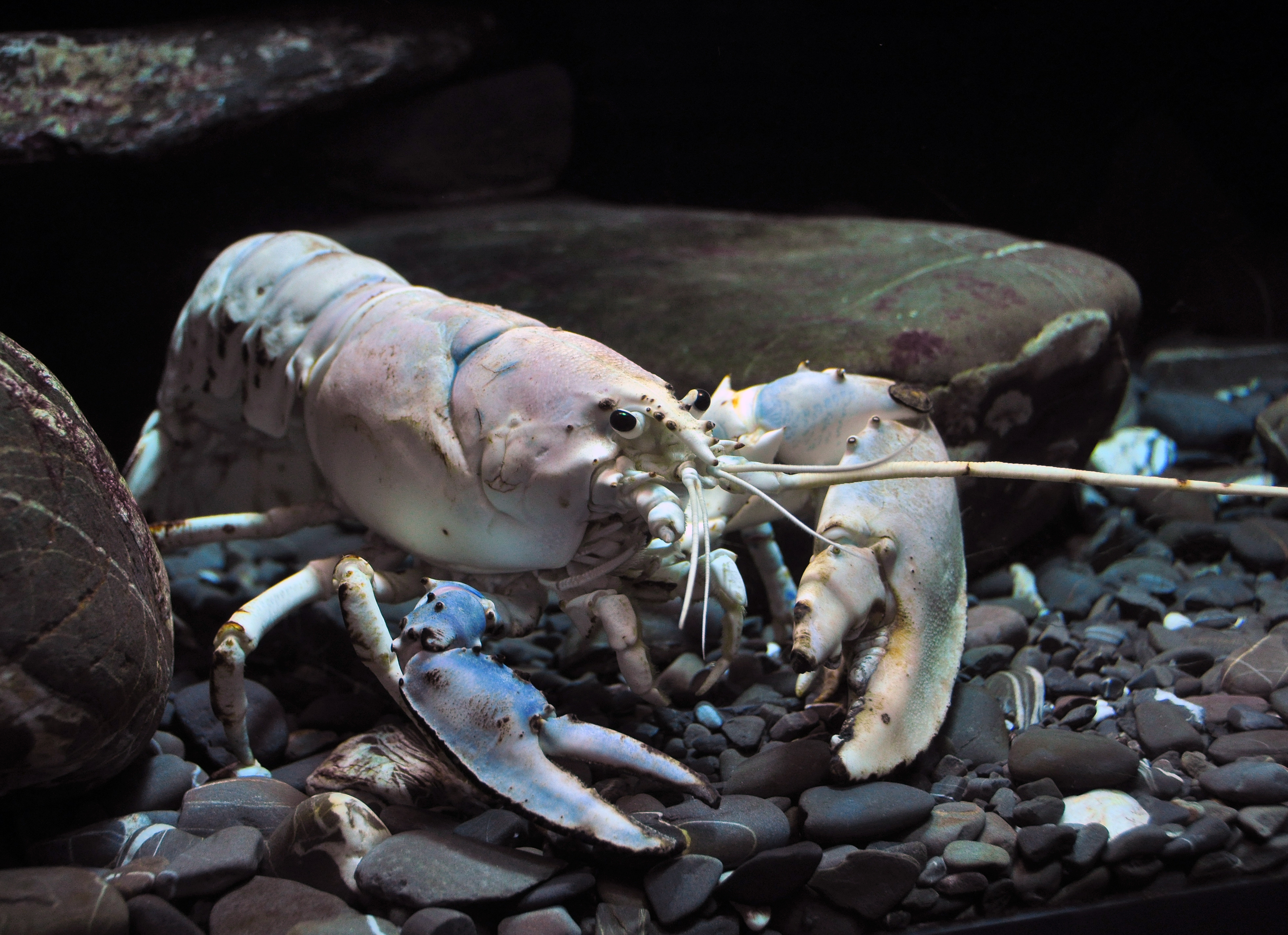 A white Lobster at the National Lobster Hatchery in Padstow, Cornwall.